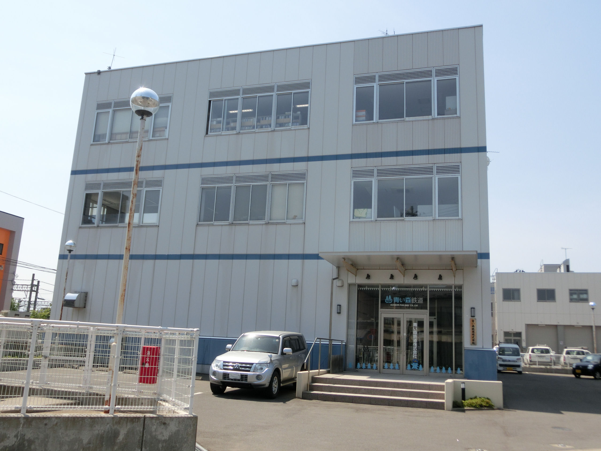 Aoimori Railway Head Office